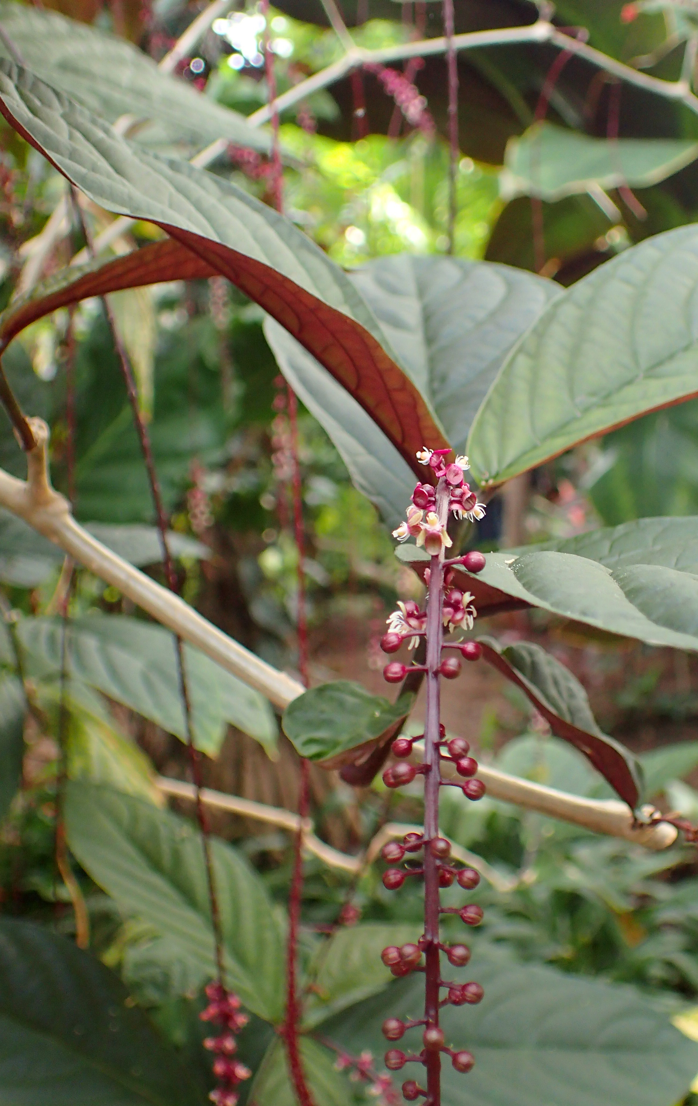 Trichostigma peruvianum in Lincoln Park Conservatory, Chicago